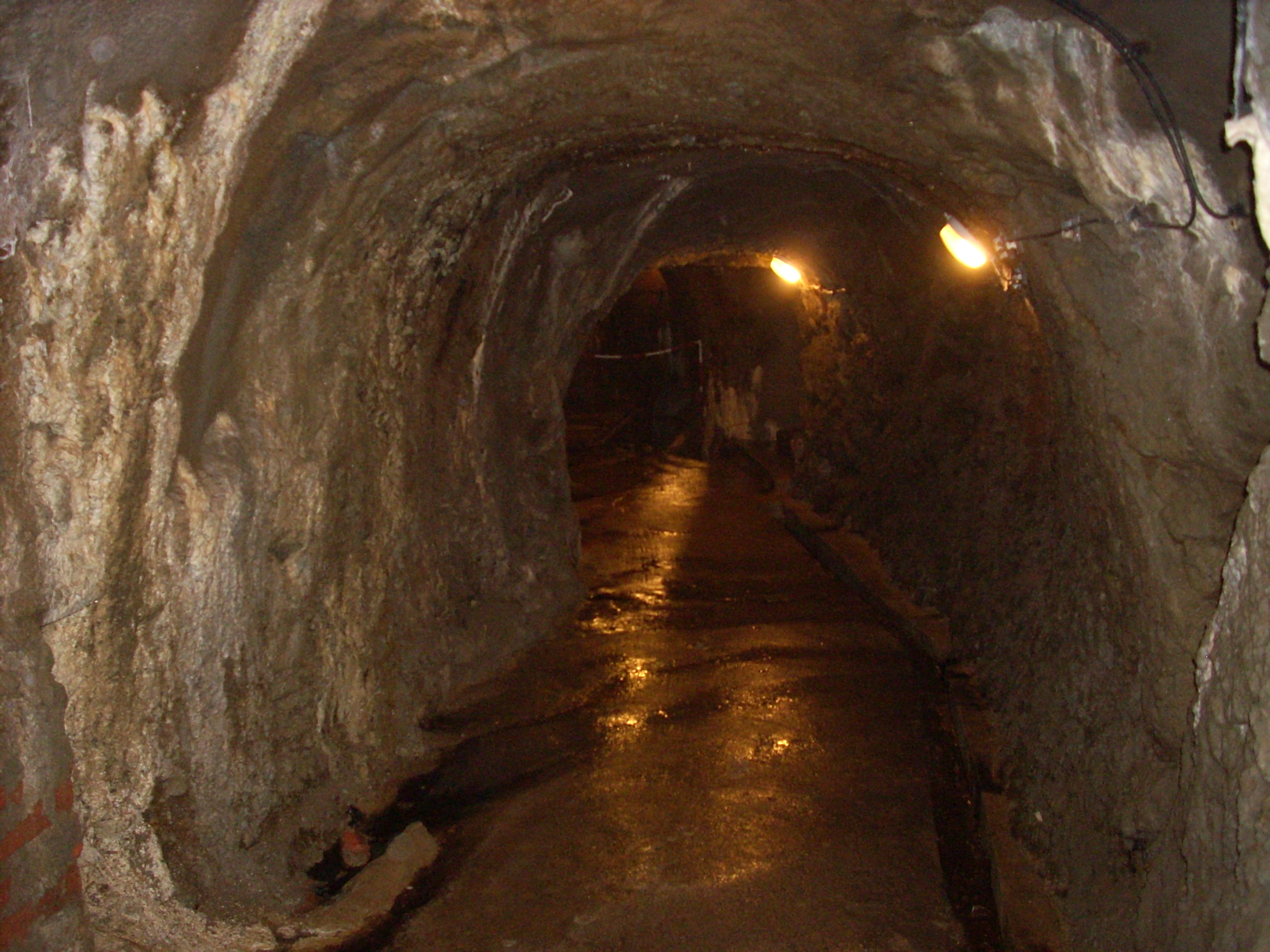 Typical passage of underground in Jihlava